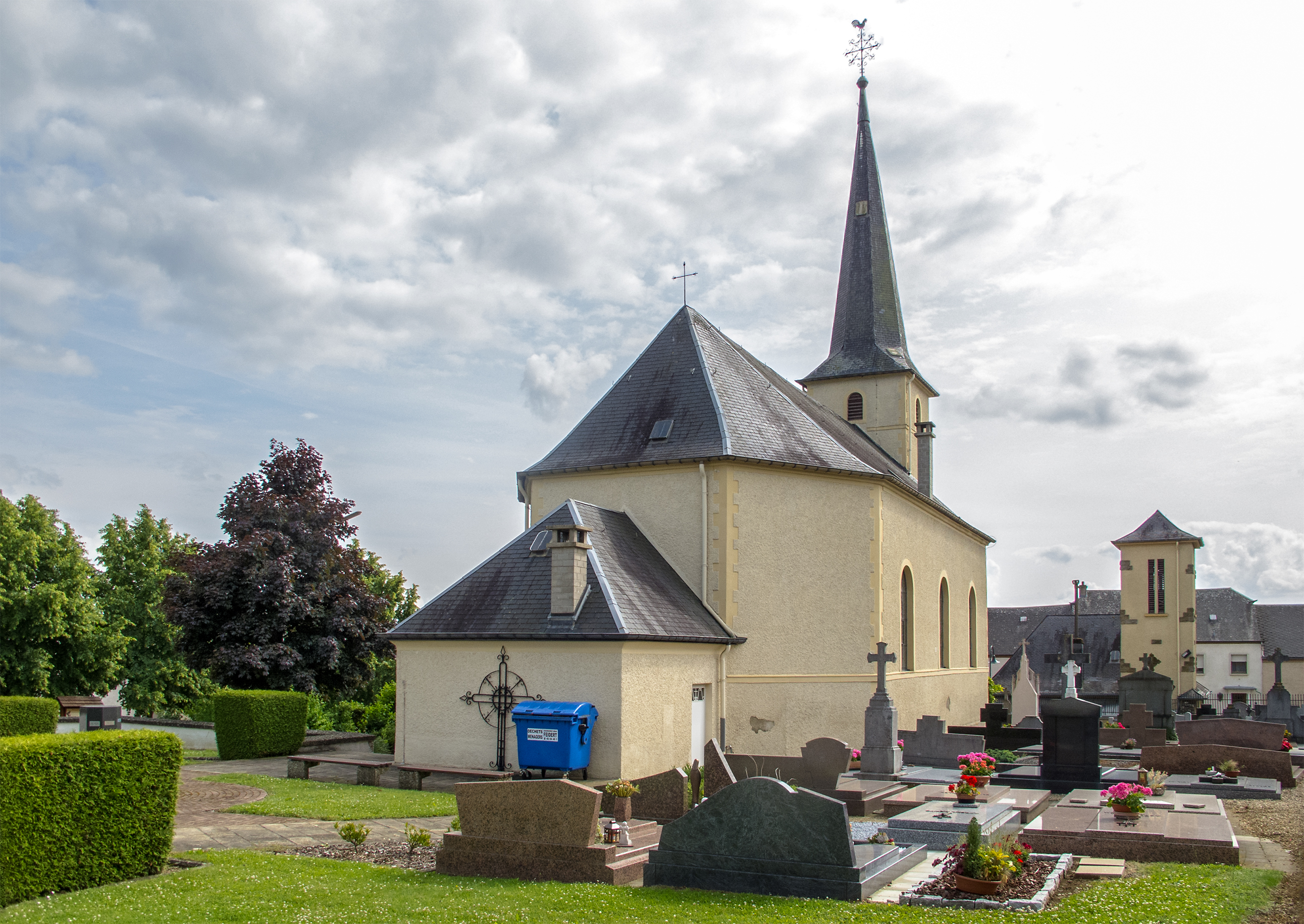 Church of Hassel